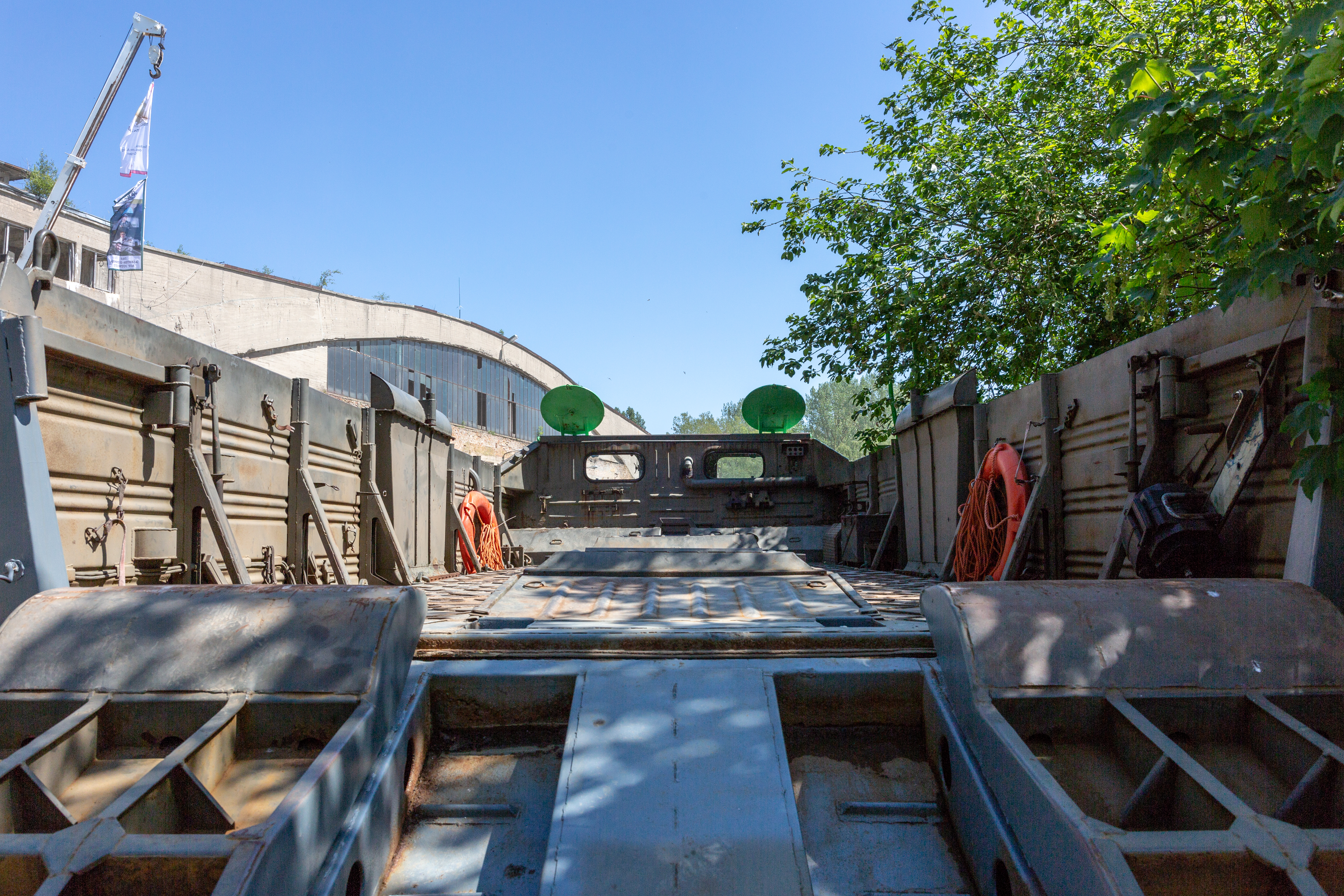 Pfingsttreffen Pütnitz 2018